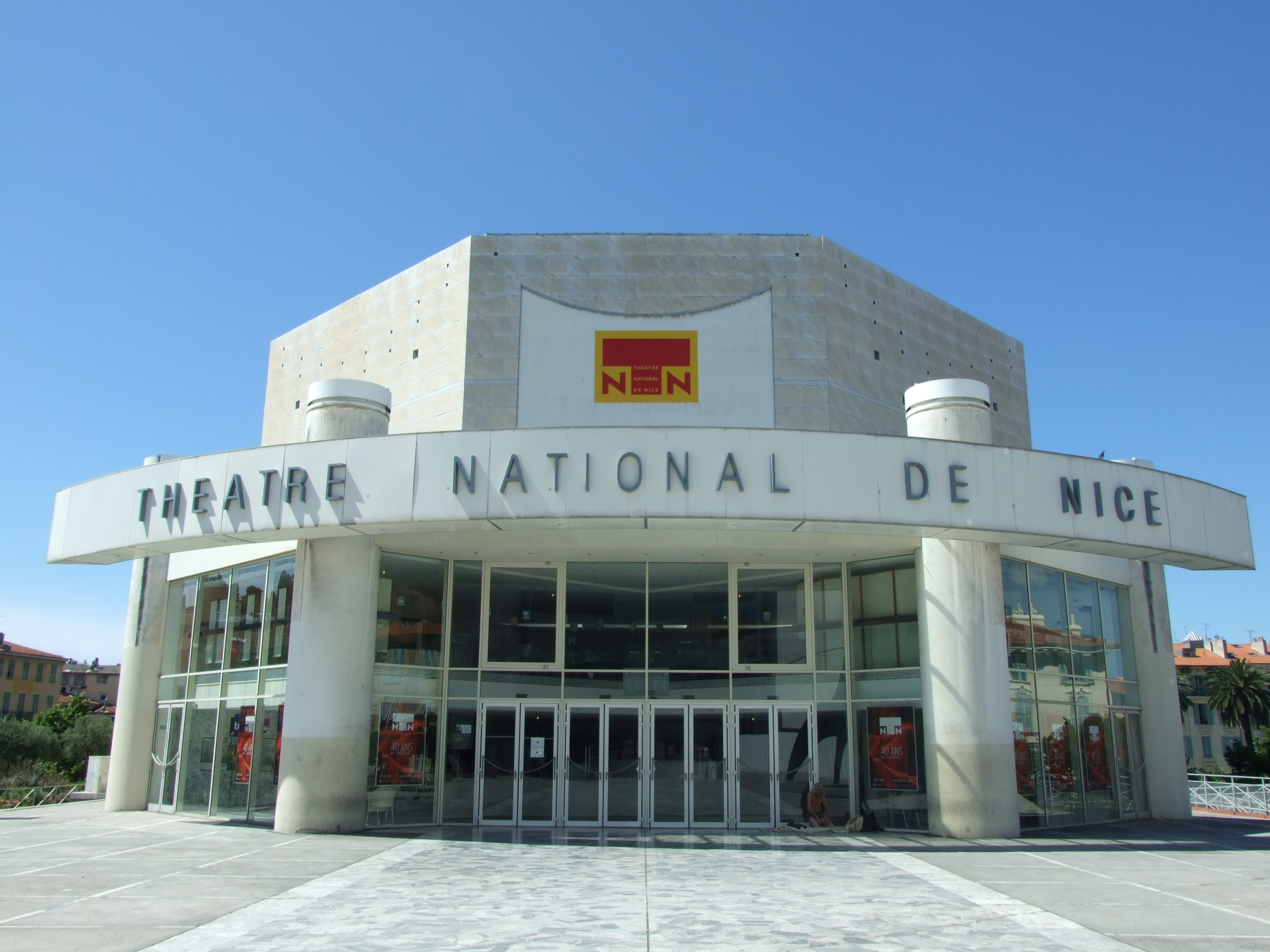 Théâtre national de Nice (Nice National Theater), on the promenade des Arts, in Nice, France.